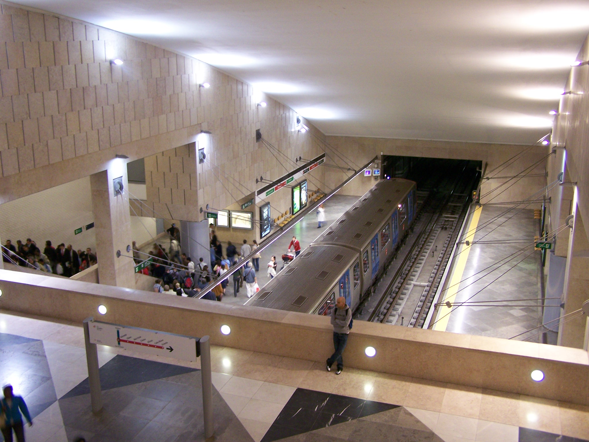 the Lisbon metro station Alameda, red line, Lisbon, Portugal